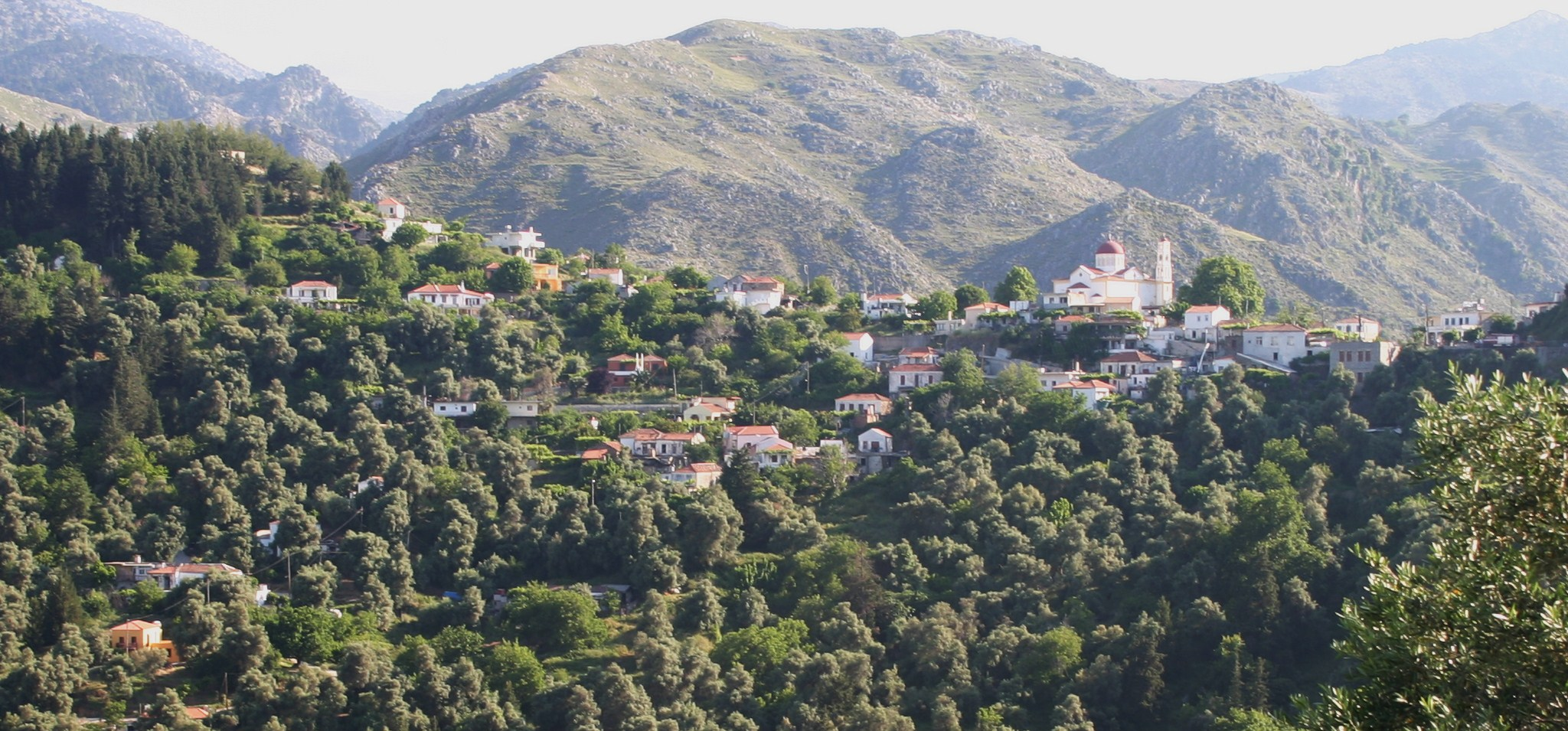 View from the north of the village of Lakki in western Crete